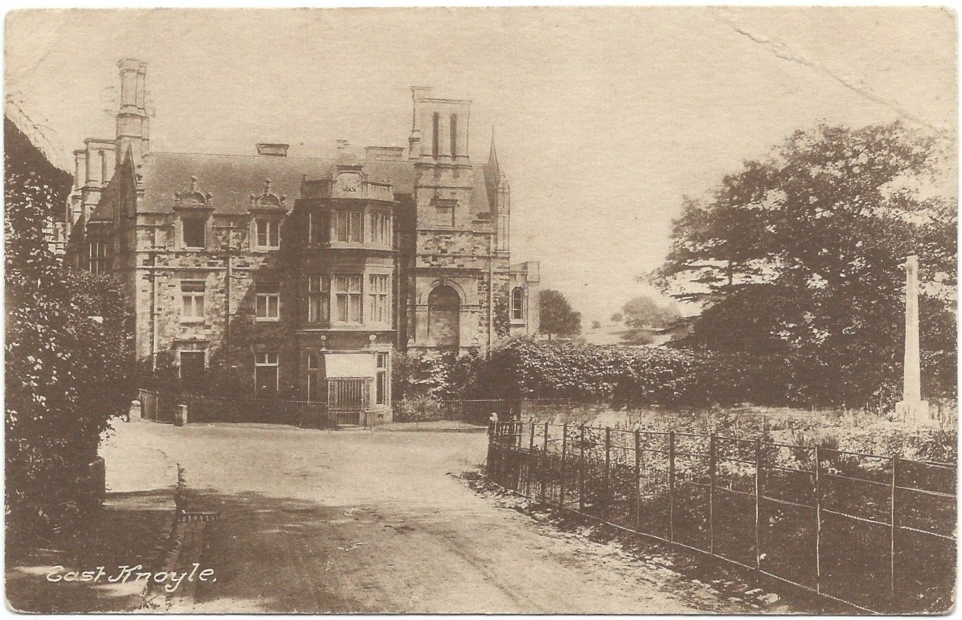 Postcard showing East Knoyle, including the East Knoyle War Memorial at right